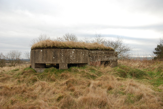 WW2 Pillbox at RAF Ouston This is part of the defences of RAF Ouston which operated during world war two. There are several pillboxes in this vicinity. The airfield is now Albemarle Barracks and home to the Royal Artillery.